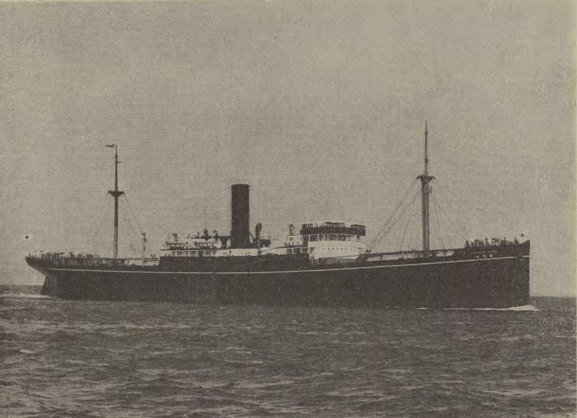 Tsushima Maru